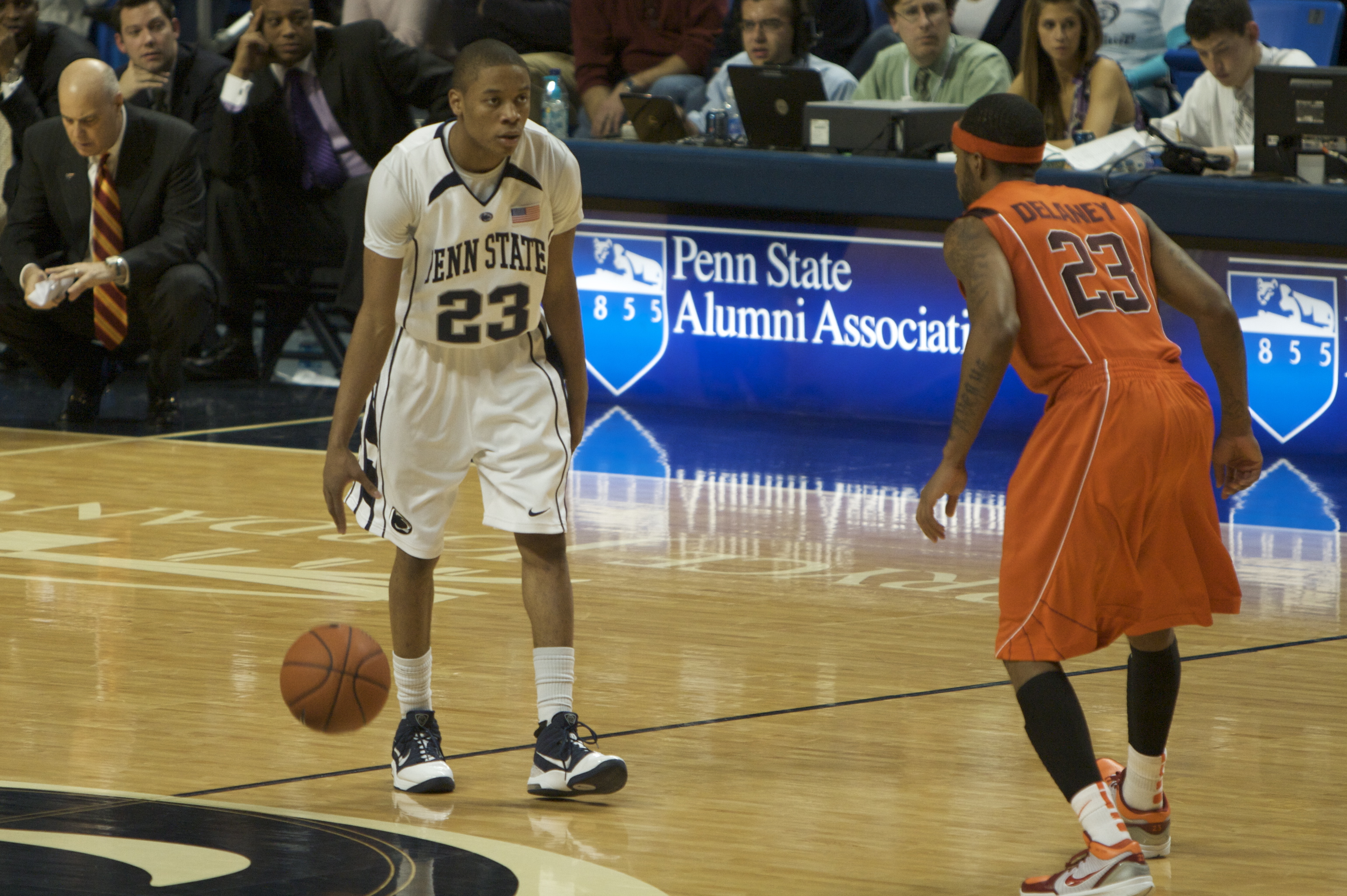 Tim Frazier (Penn State) runs the offense vs Virginia Tech's Malcolm Delaney.